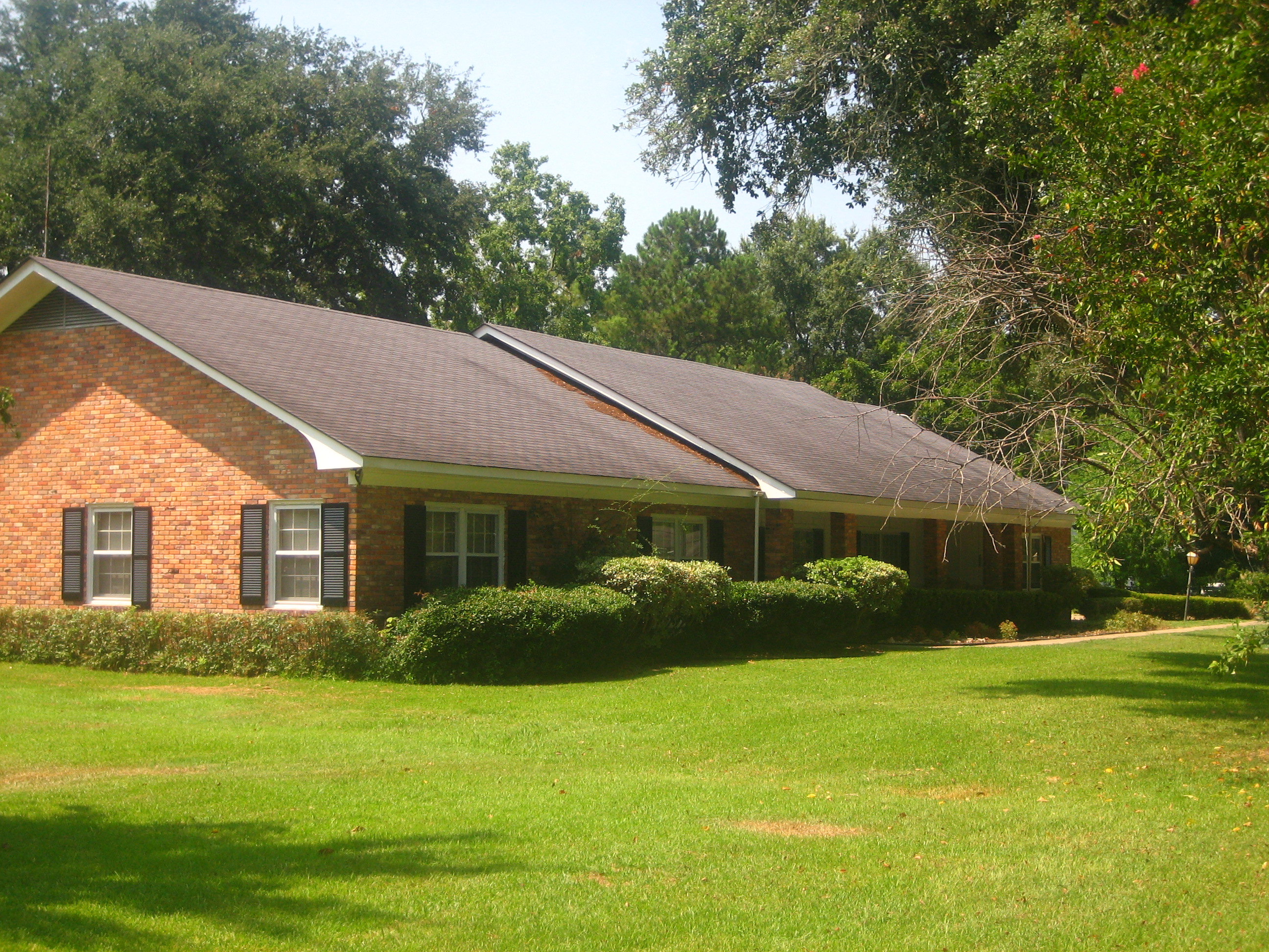 House, Waterproof, Louisiana I took photo on Aug. 2, 2008.Billy Hathorn (talk) 02:30, 16 August 2008 (UTC)